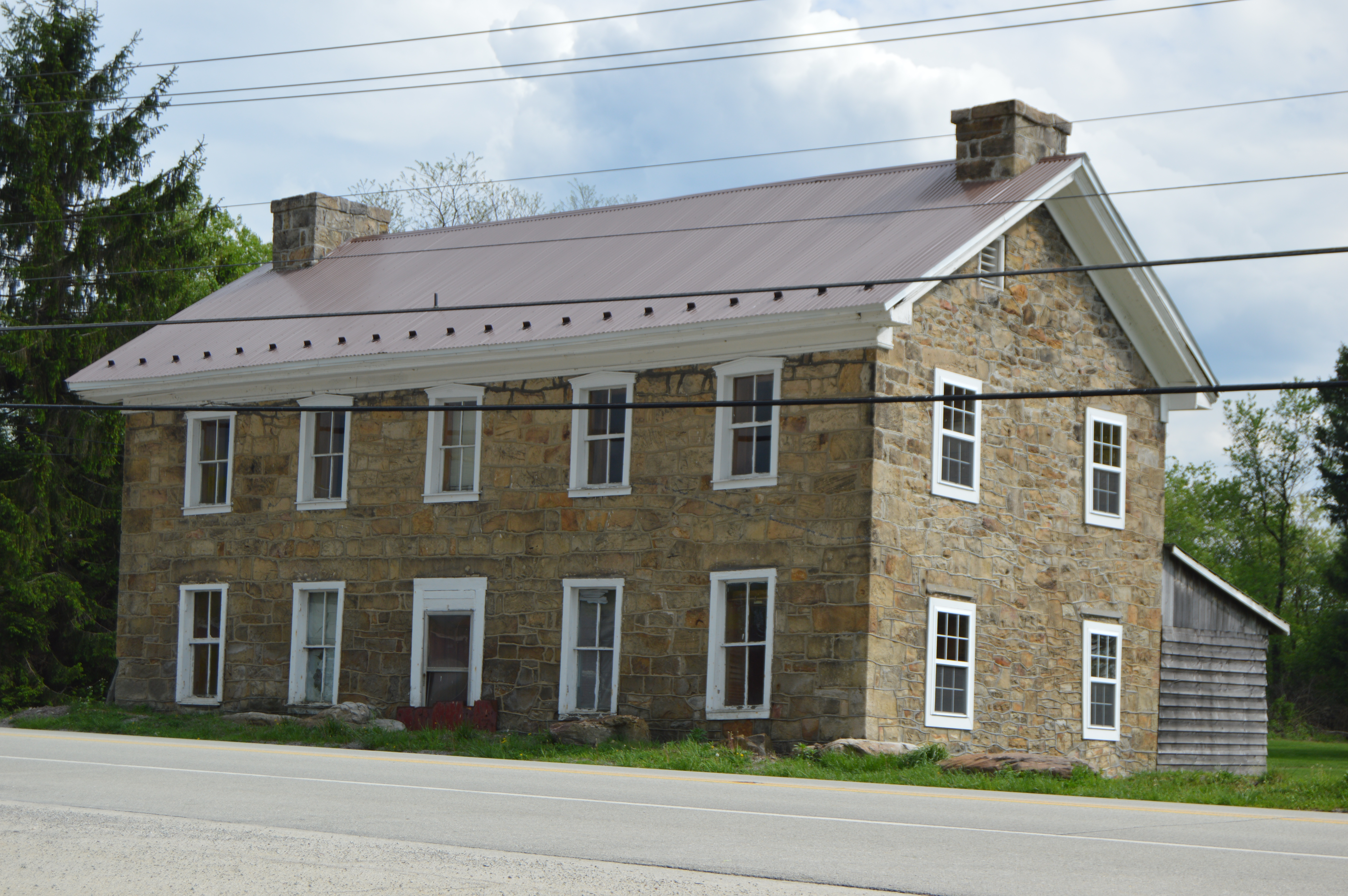 Front and western end of a former tavern on the National Road ((U.S. Route 40) in northwestern Henry Clay Township, Fayette County, Pennsylvania, United States.